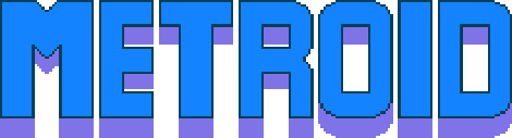 The logotype for "Metroid".